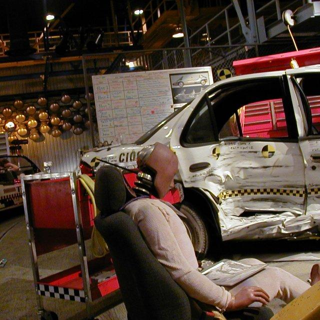 A test dummy, as seen from within Test Track, a ride at Epcot, Walt Disney World.